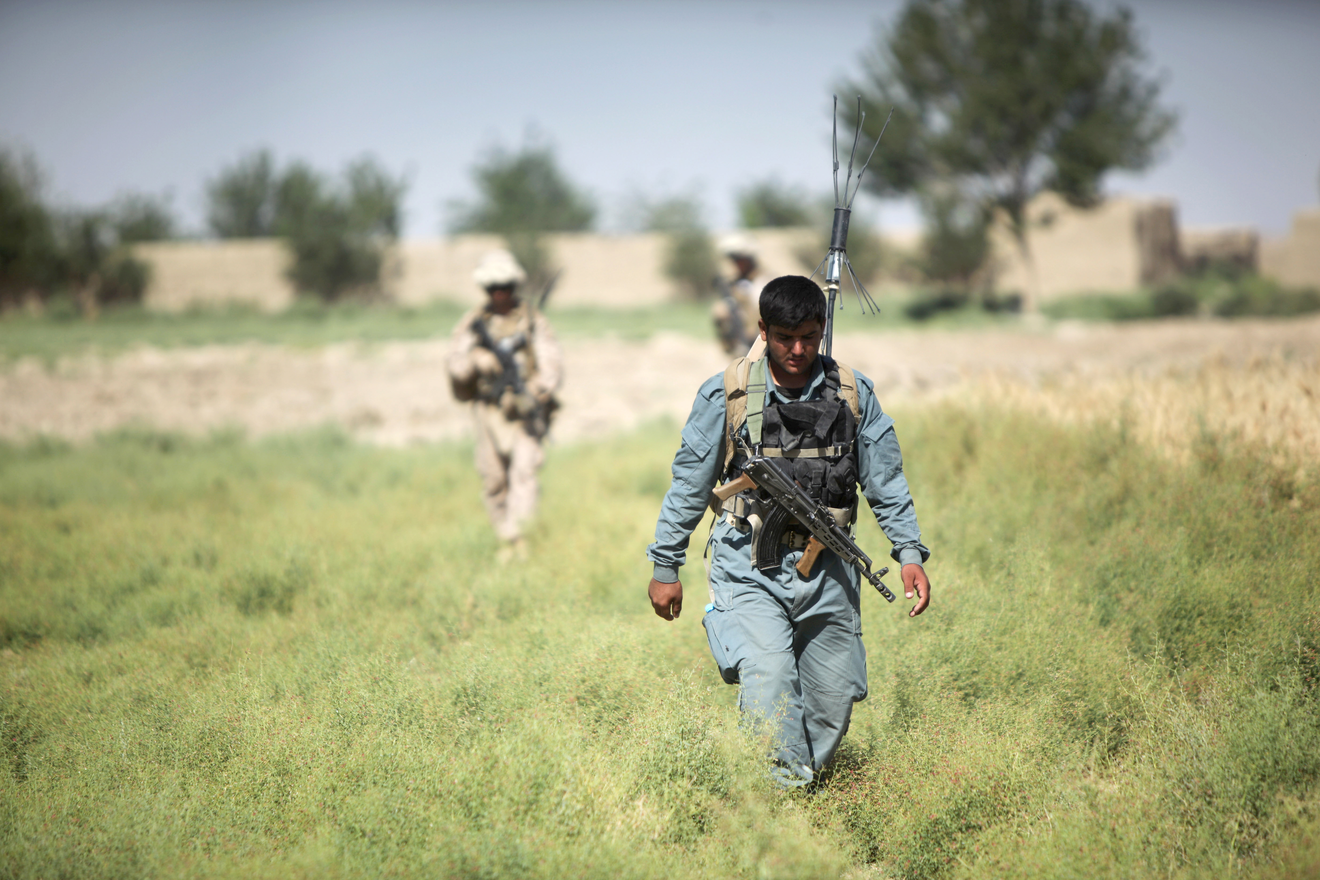 Afghan Security Marines with Kilo Company, 3rd Battalion, 8th Marine Regiment, partnered with Afghan National Police, patrol through Garmsir District, Helmand province, Afghanistan, June 1. The successes of the International Security Assistance Forces before Kilo Co. had in the area and the development of a strong Afghan National Security Force has allowed for a small coalition presence in Garmsir. (U.S. Marine Corps photo by Cpl. Kenneth Jasik)